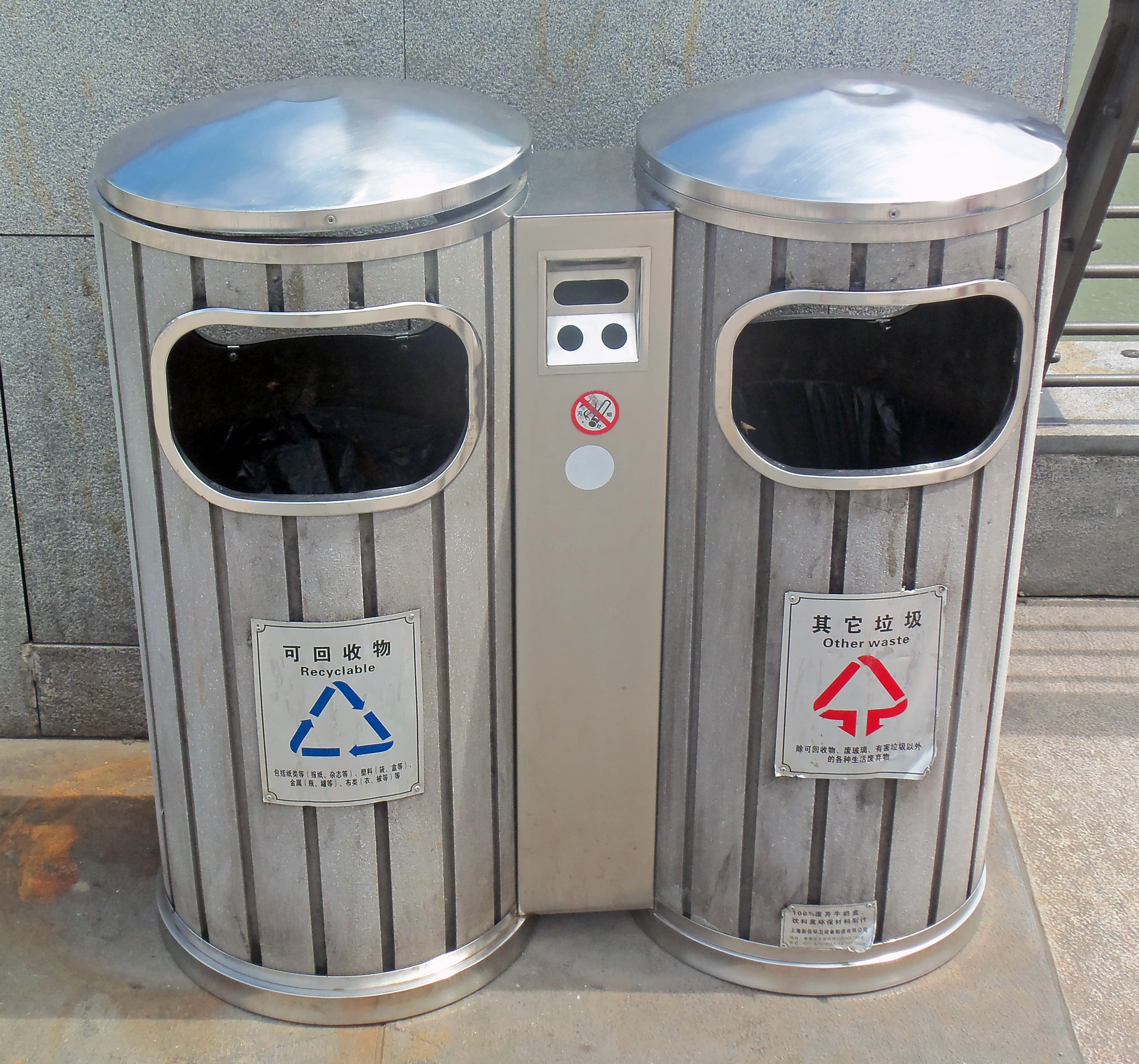 Bins for recyclable and non-recyclable waste in Huangpu Park, Shanghai